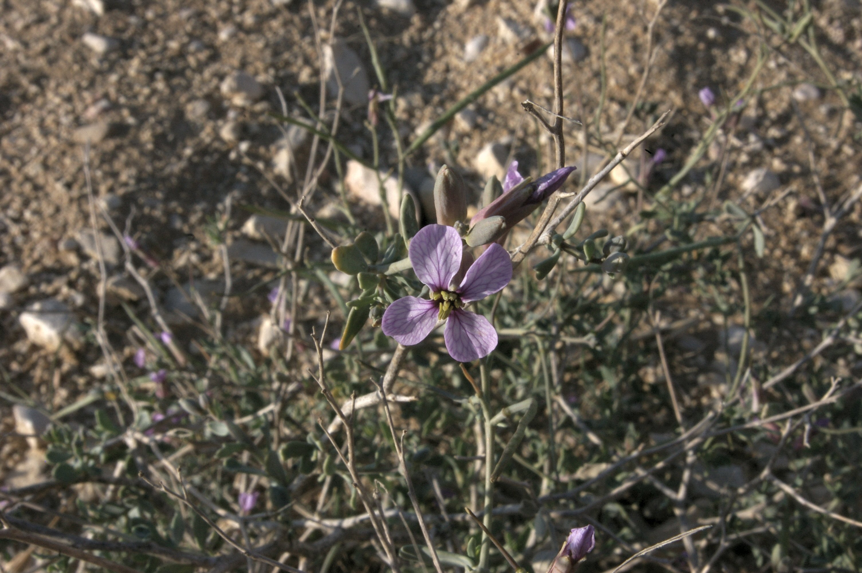 Moricandia nitens, West Negev